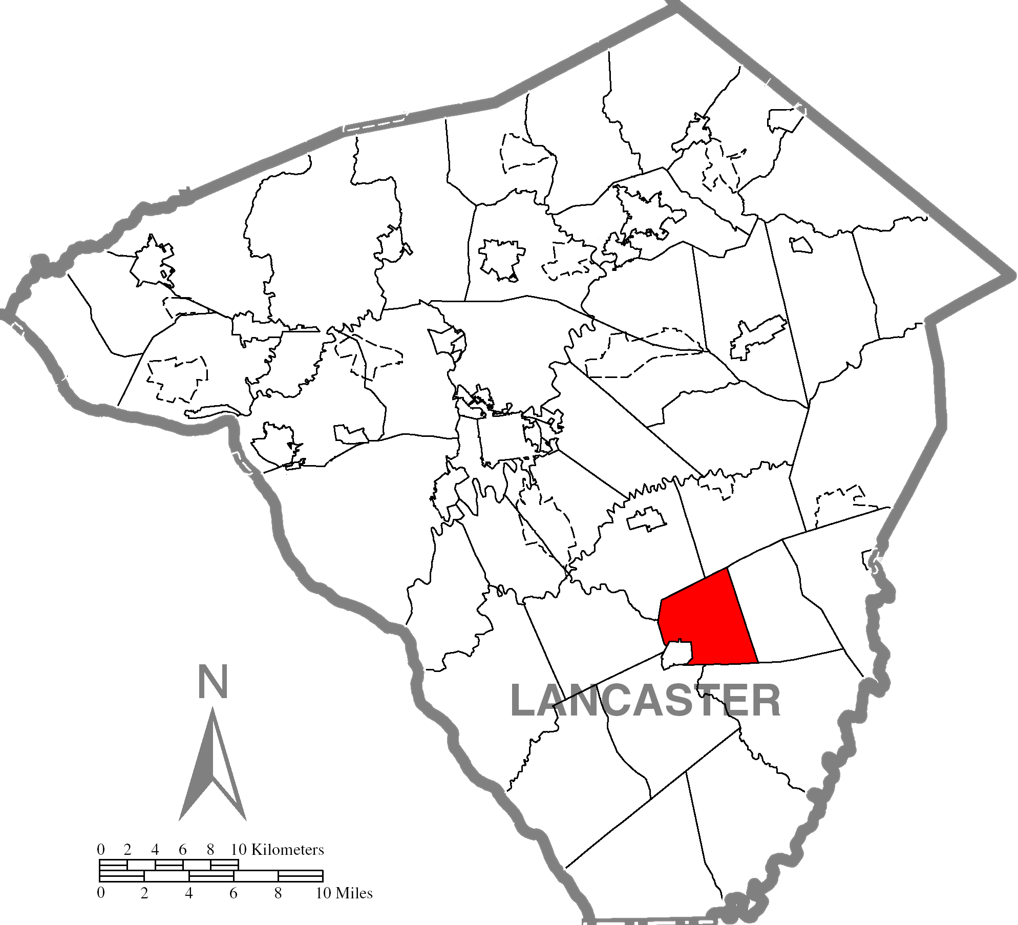 Highlighted Lancaster County map of Eden Township.